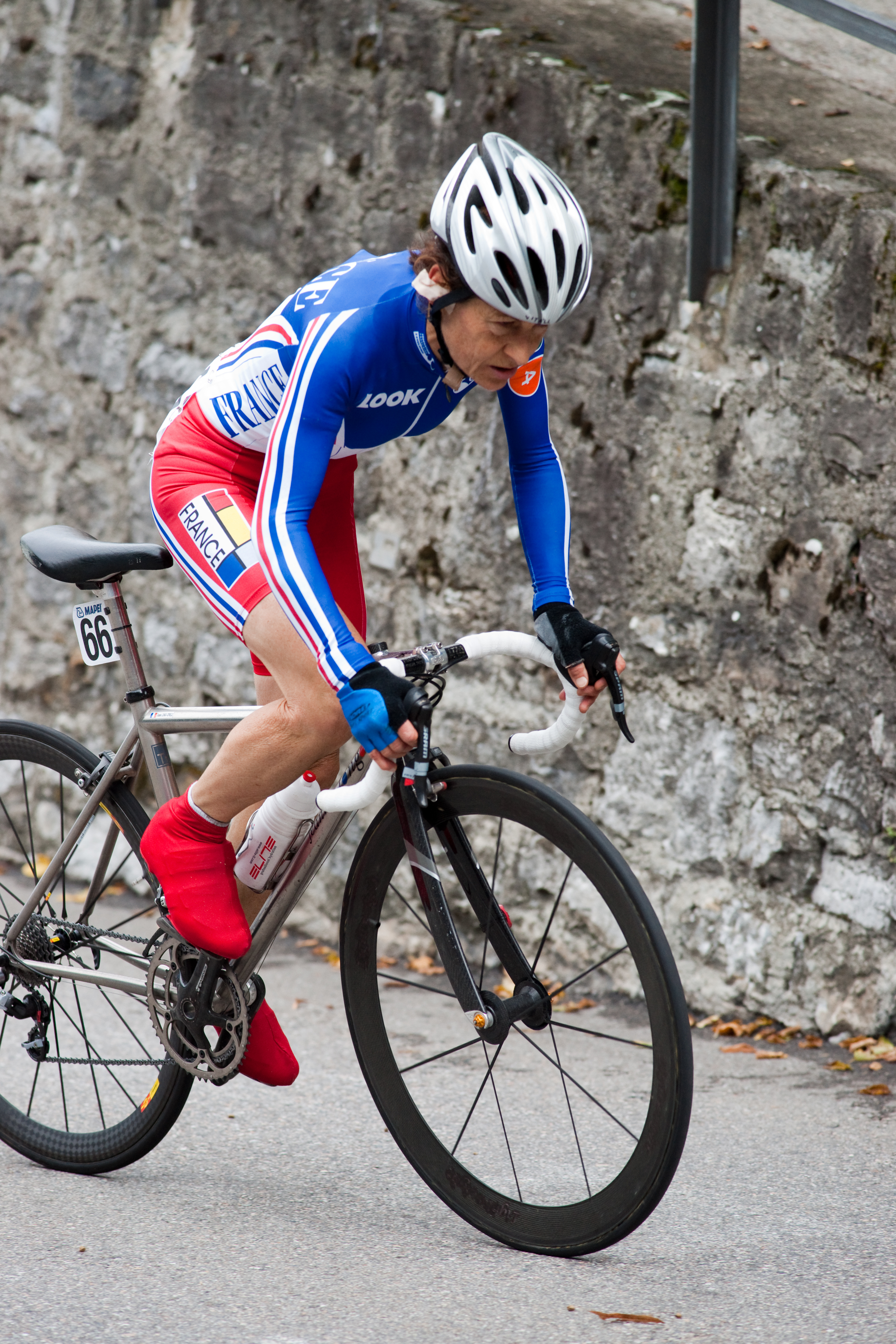 Jeannie Longo during the 2009 Road World Championship in Mendrisio, Switzerland.